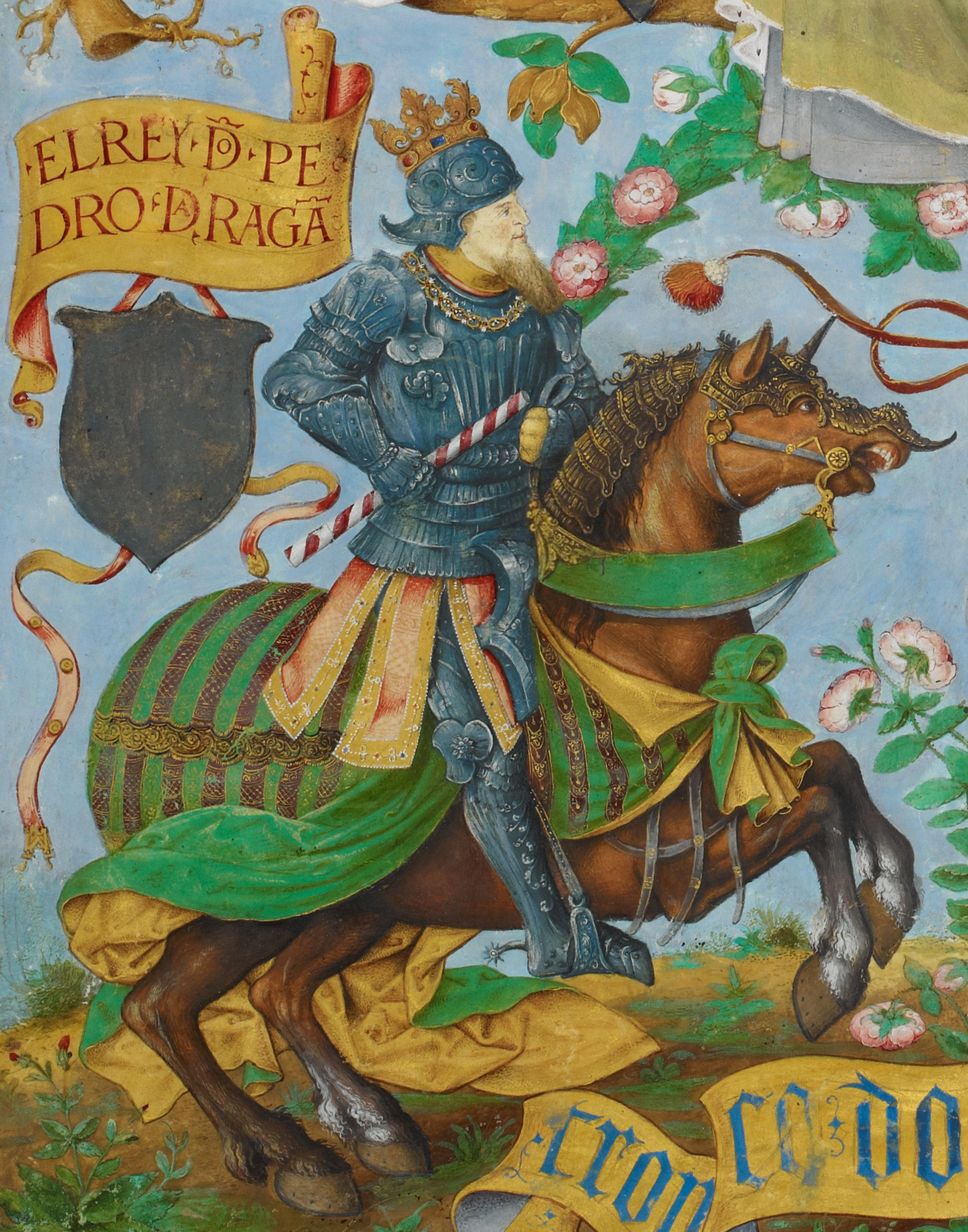 Peter III (1239-1285), King of Aragon, in a 16th-century miniature.